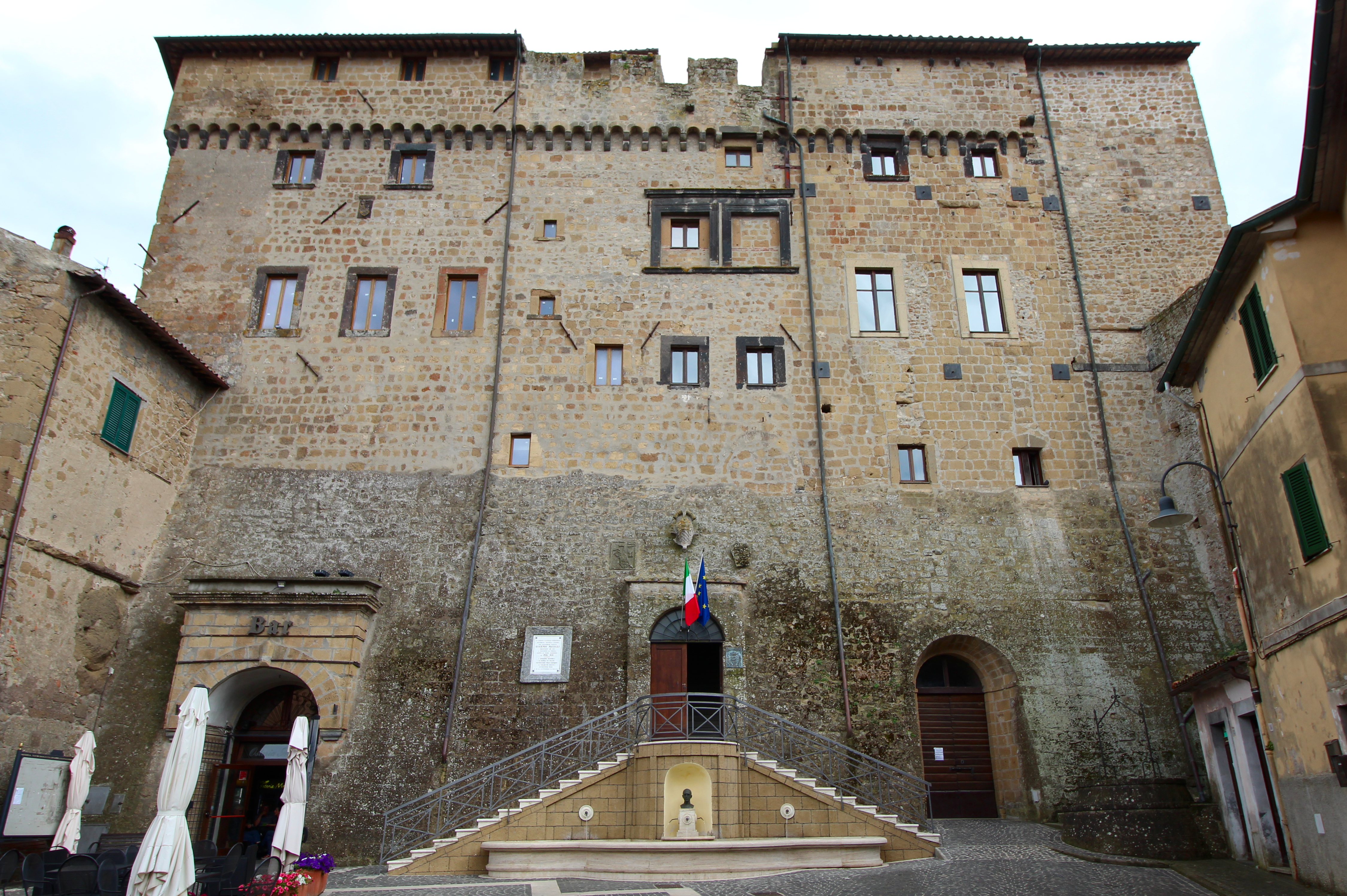 Palace Castello Monaldeschi, also called Palazzo Madama, Onano, Province of Viterbo, Lazio, Italy